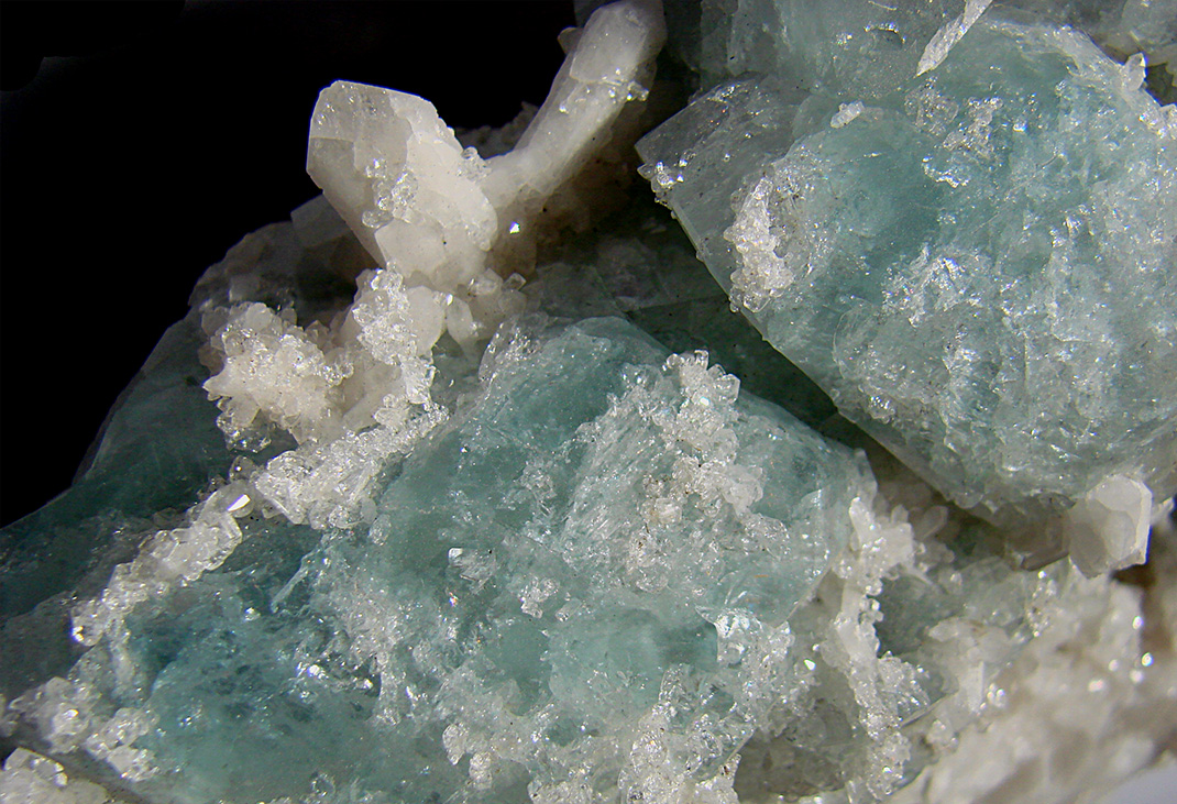 Blue datolite from Russia.